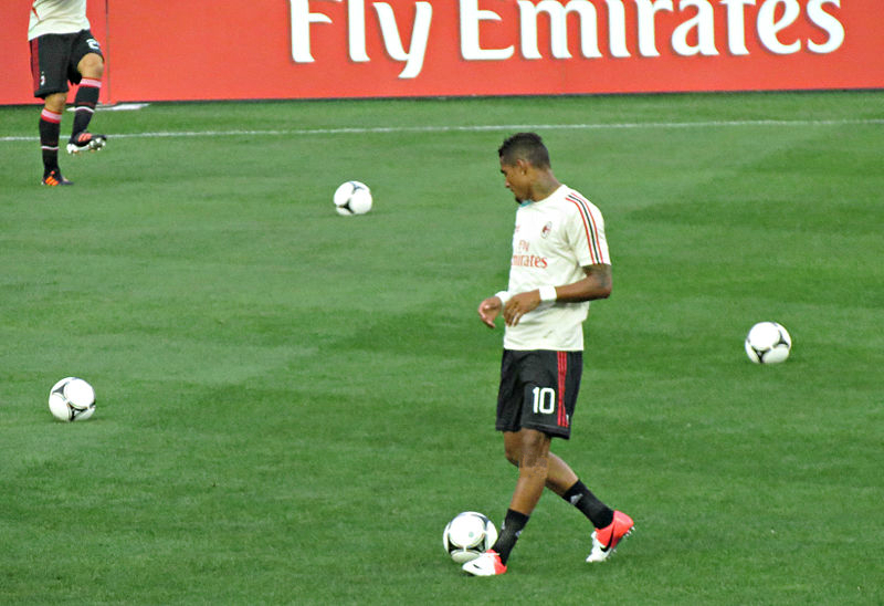 Kevin-Prince Boateng warm up before friendly Real Madrid CF-AC Milan, august 2012